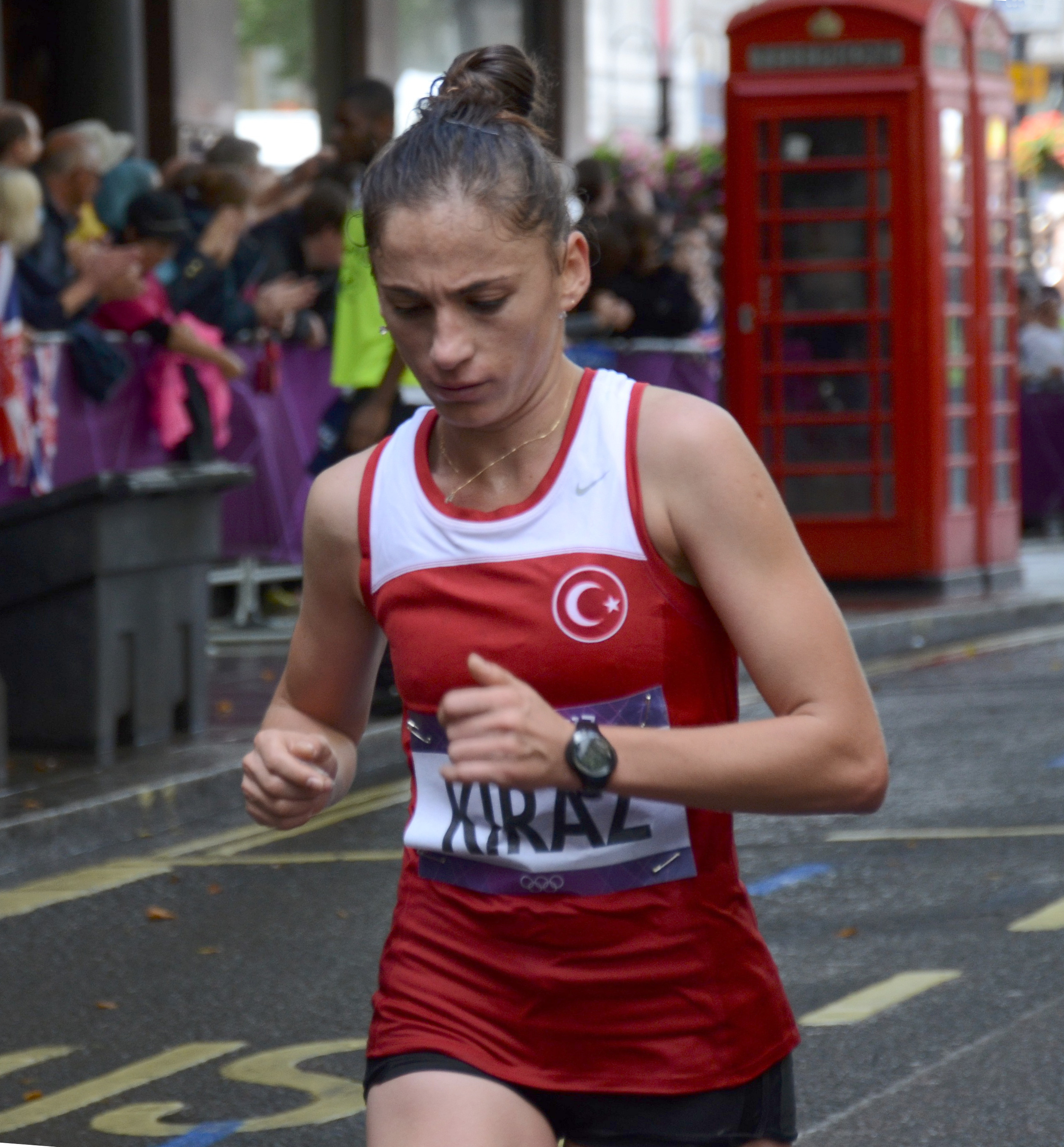 Ümmü Kiraz (Turkey) in the marathon (w) at the Olympic Games 2012